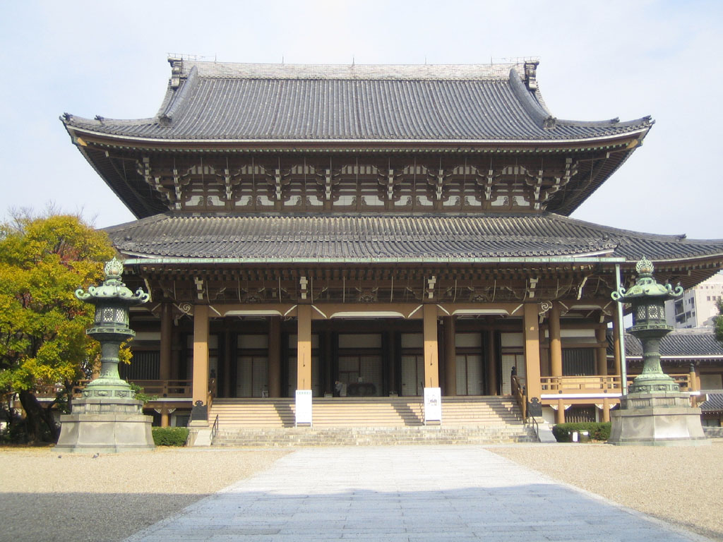 The branch of Higashi-Honganji Temple in Nagoya (東本願寺名古屋別院 Higashi-Honganji Nagoya Betsuin), located in Nagoya, Aichi, Japan